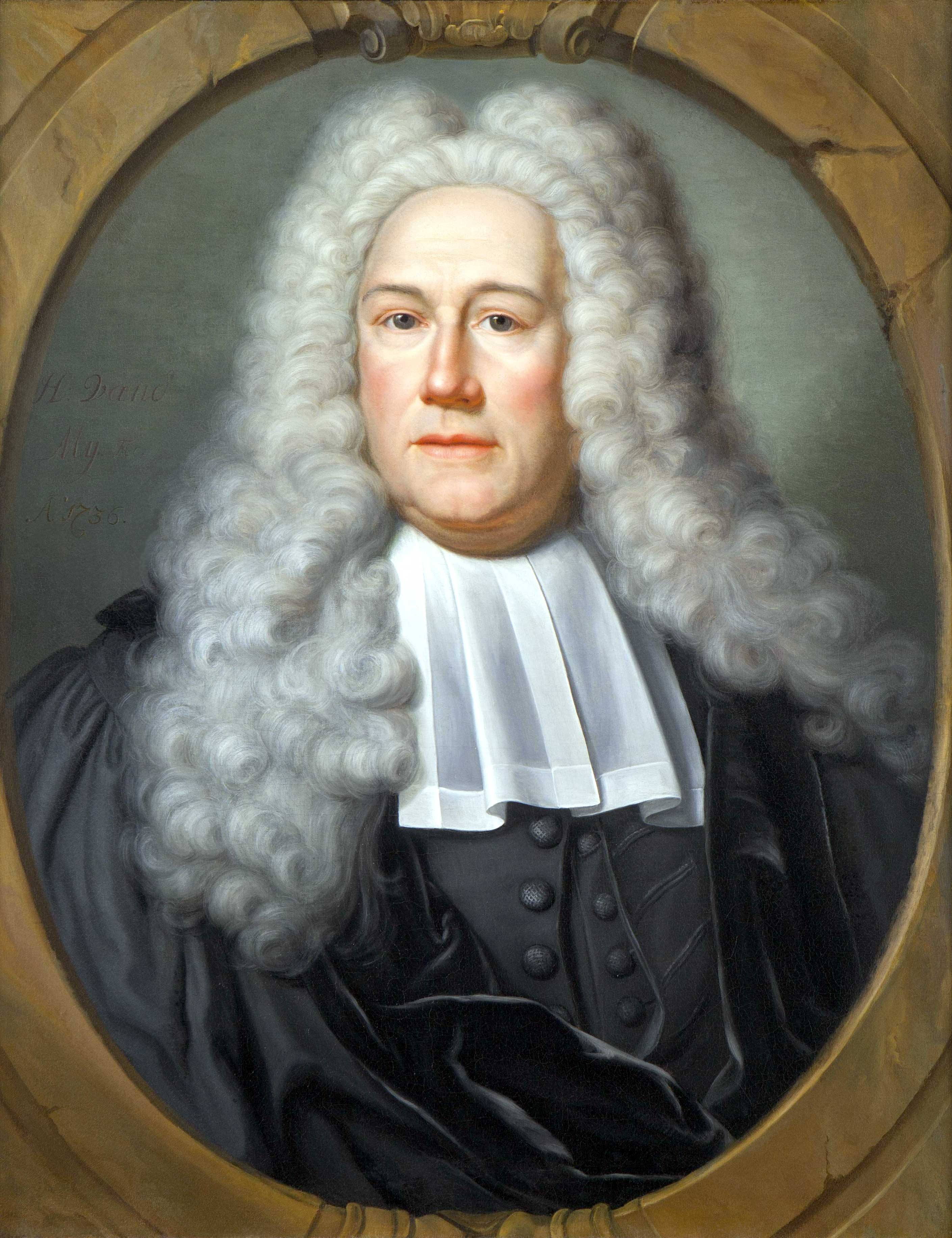 Hermannus Oosterdijk Schacht (*1672-1744) Dutch physician